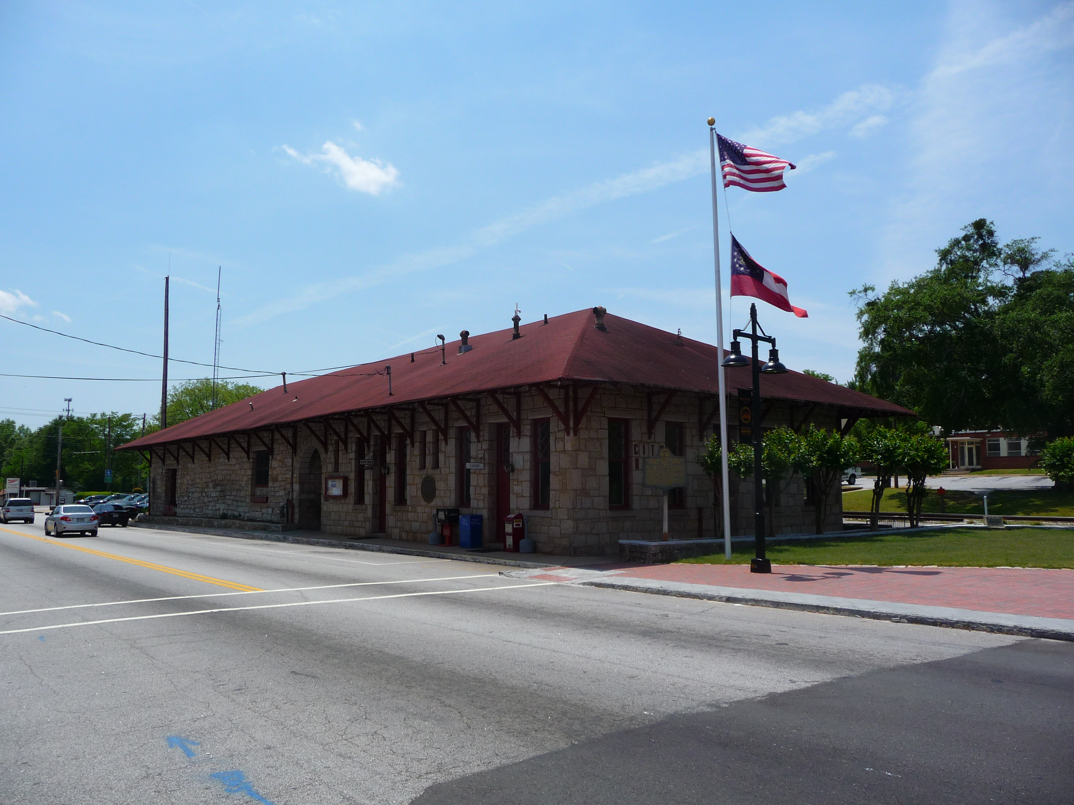 Stone Mountain, Georgia City Hall and Police Station